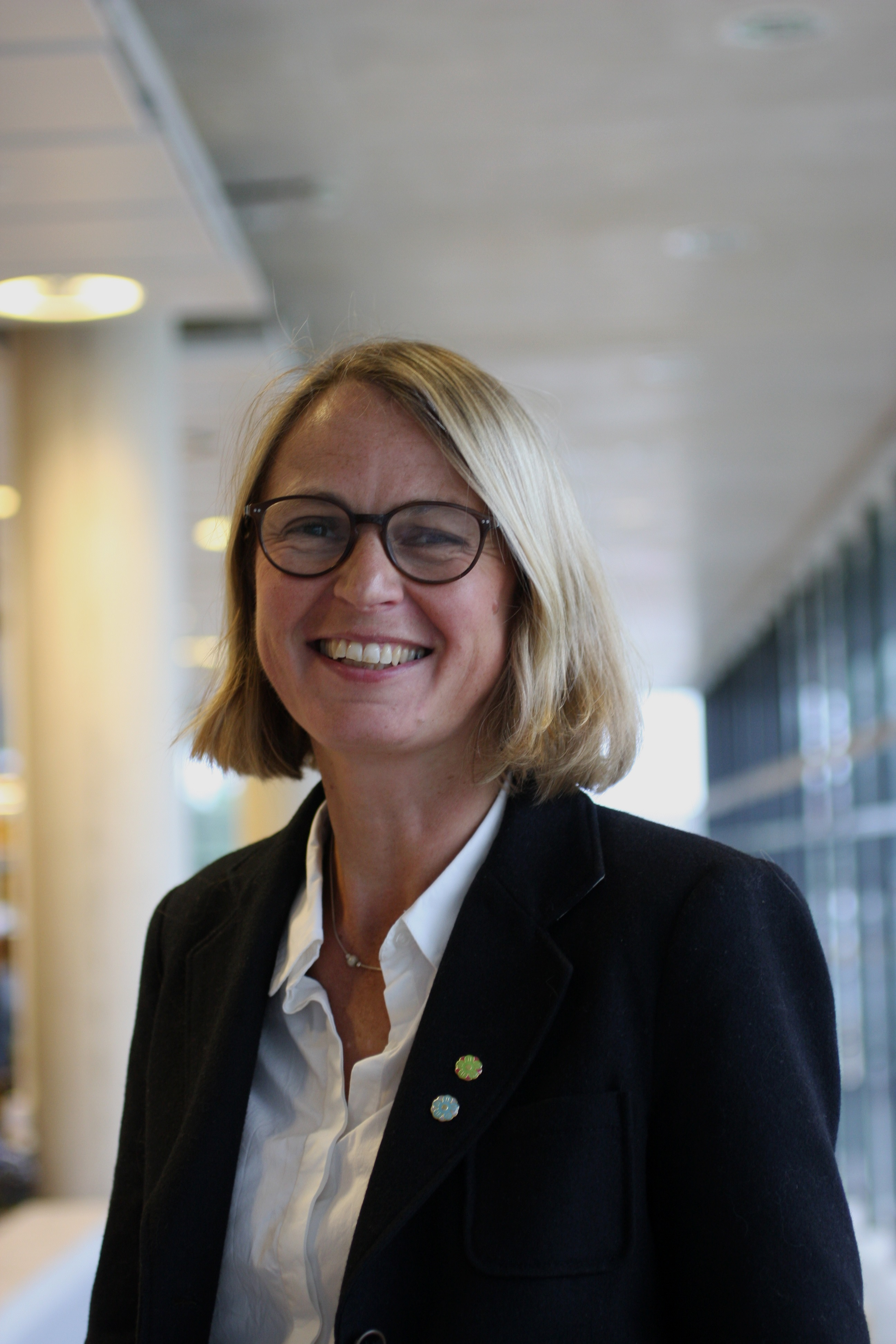 Detta är Karin Grönvall som var med under Wikipedia-dagen 2019 och som är blivande Riksbibliotekarie.